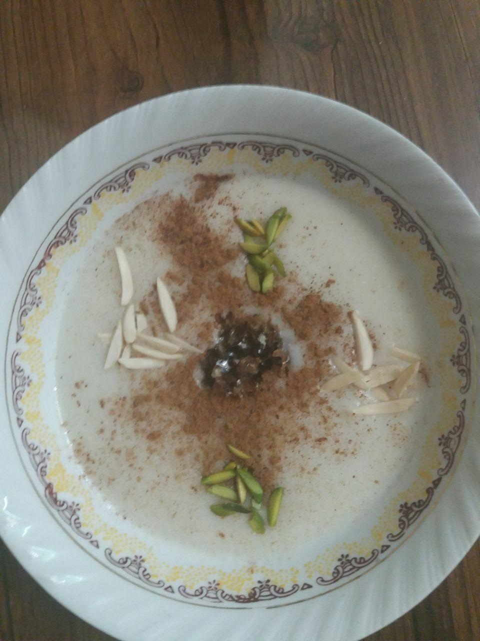 Khashil is an Azerbaijani dessert.